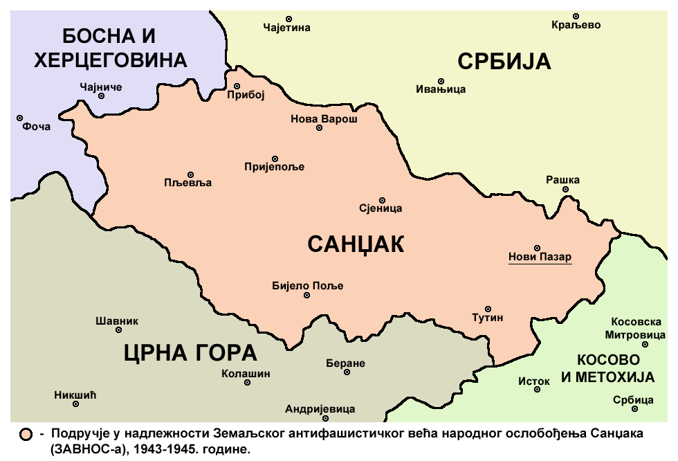 Area under jurisdiction of the National Anti-Fascist Council of the People's Liberation of Sandžak (ZAVNOS), 1943-1945.